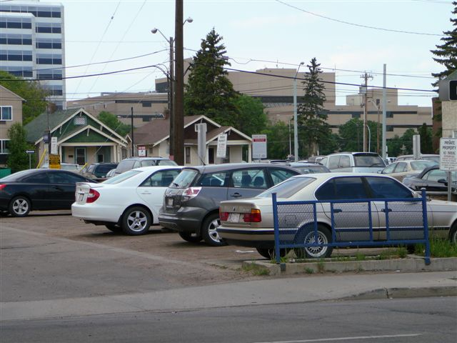 Took this picture myself on June 6, 2007.